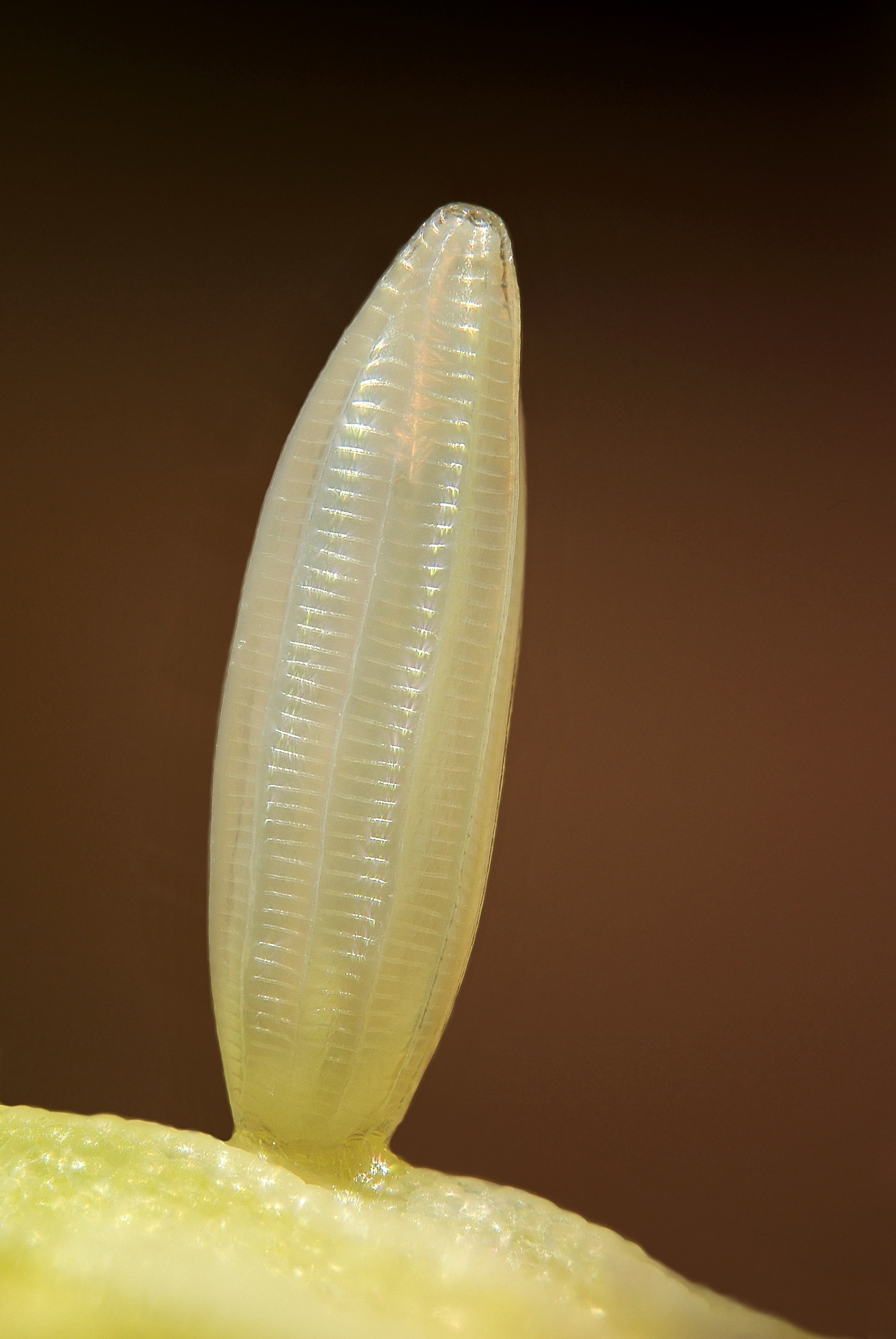 Egg of the butterfly Leptidea sinapis (or its sibling species L. reali) on a sepal of one of its host plants, Lotus corniculatus. Scale : egg length = 1.5 mm Technical settings : - focus stack of 30 images - microscope objective (Nikon achromatic 10x 160/0.25) on bellow (minimum - 70 mm - extension)